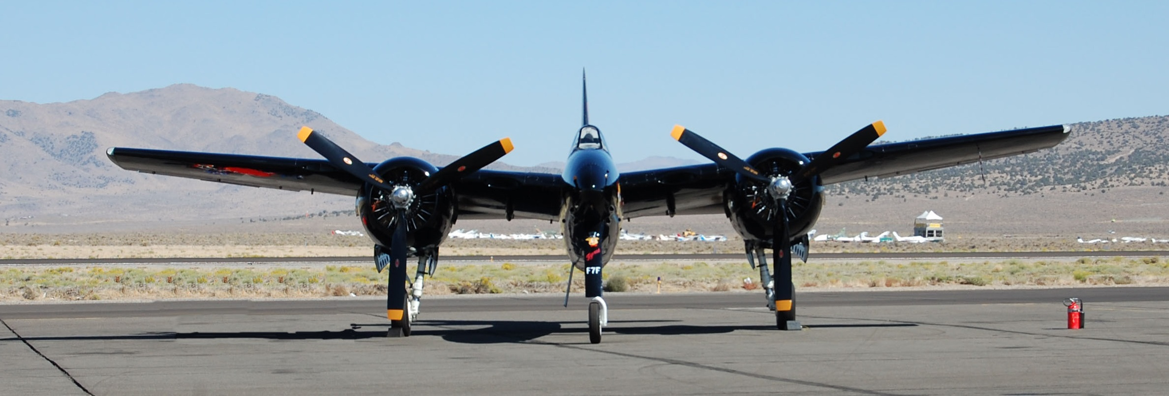 Grumman F7F-3N Tigercat "Big Bossman", serial number 80503, at the 2007 Reno Air Races. At the time, the aircraft was owned by Mike Brown. Ownership was subsequently transferred to Lewis Air Legends, where the aircraft was repainted silver and renamed "La Patrona" (N747MX)